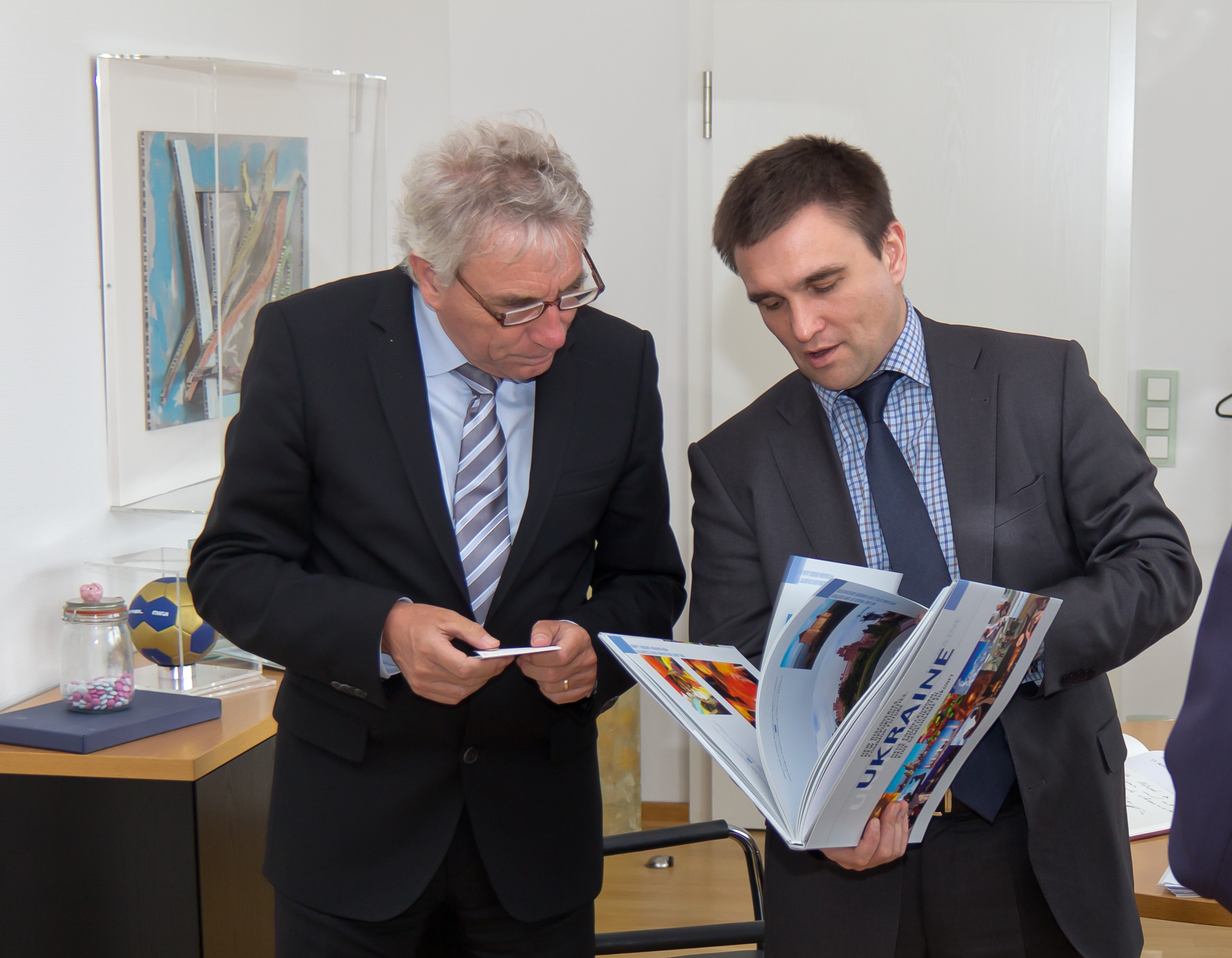 Inaugural visit of the Ukrainian ambassador Pavlo Klimkin to Germany in Cologne. Reception by the Mayor of Cologne, Jürgen Roters.